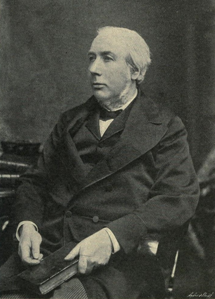 Portrait of James Donaldson